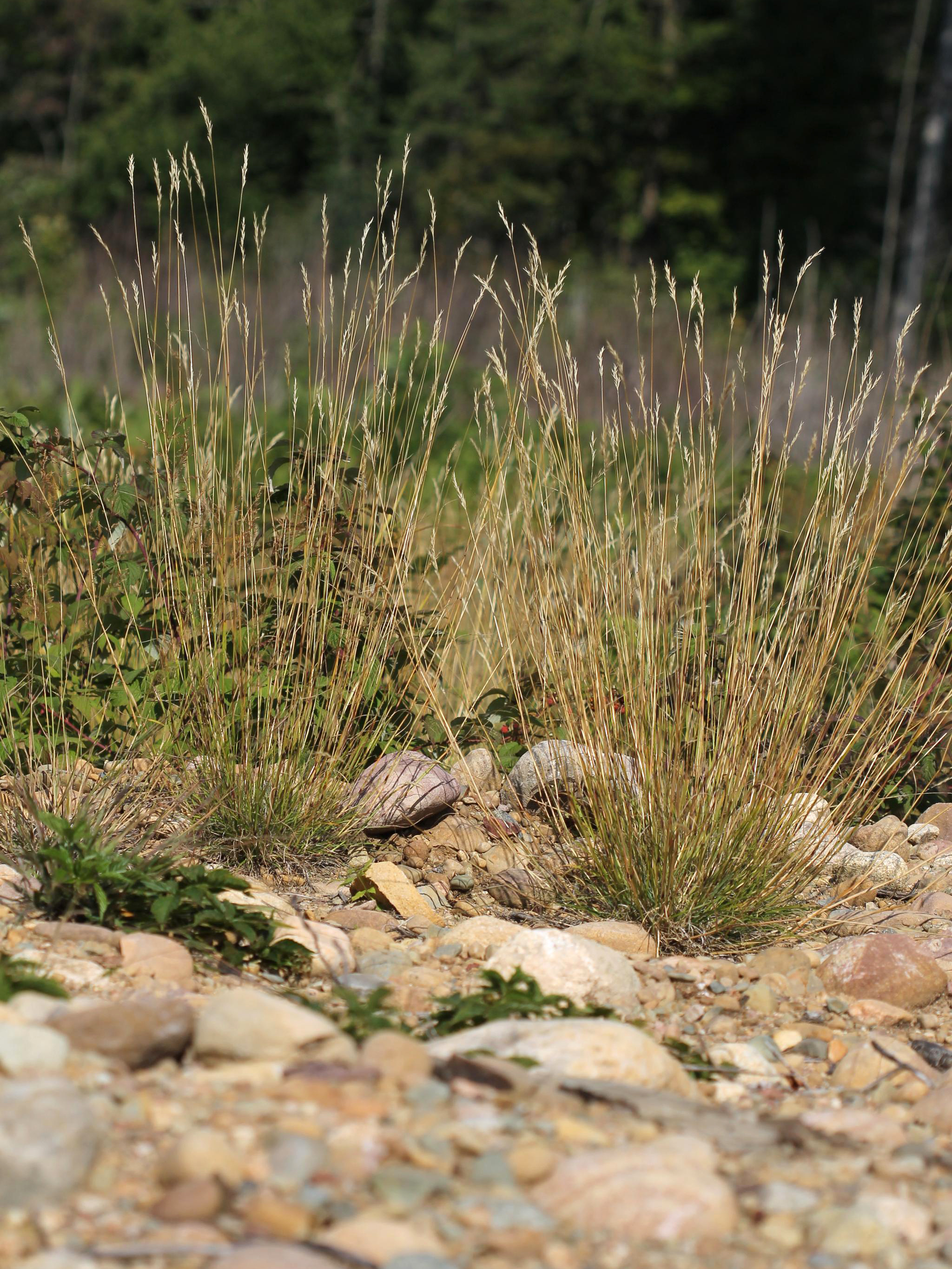 Danthonia spicata (L.) P. Beauv. ex Roem. & Schult. - poverty oatgrass - Dennis Twp (Sect. 36), Sault Ste. Marie, Ontario, Canada